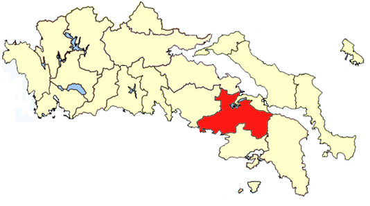 Thiva province